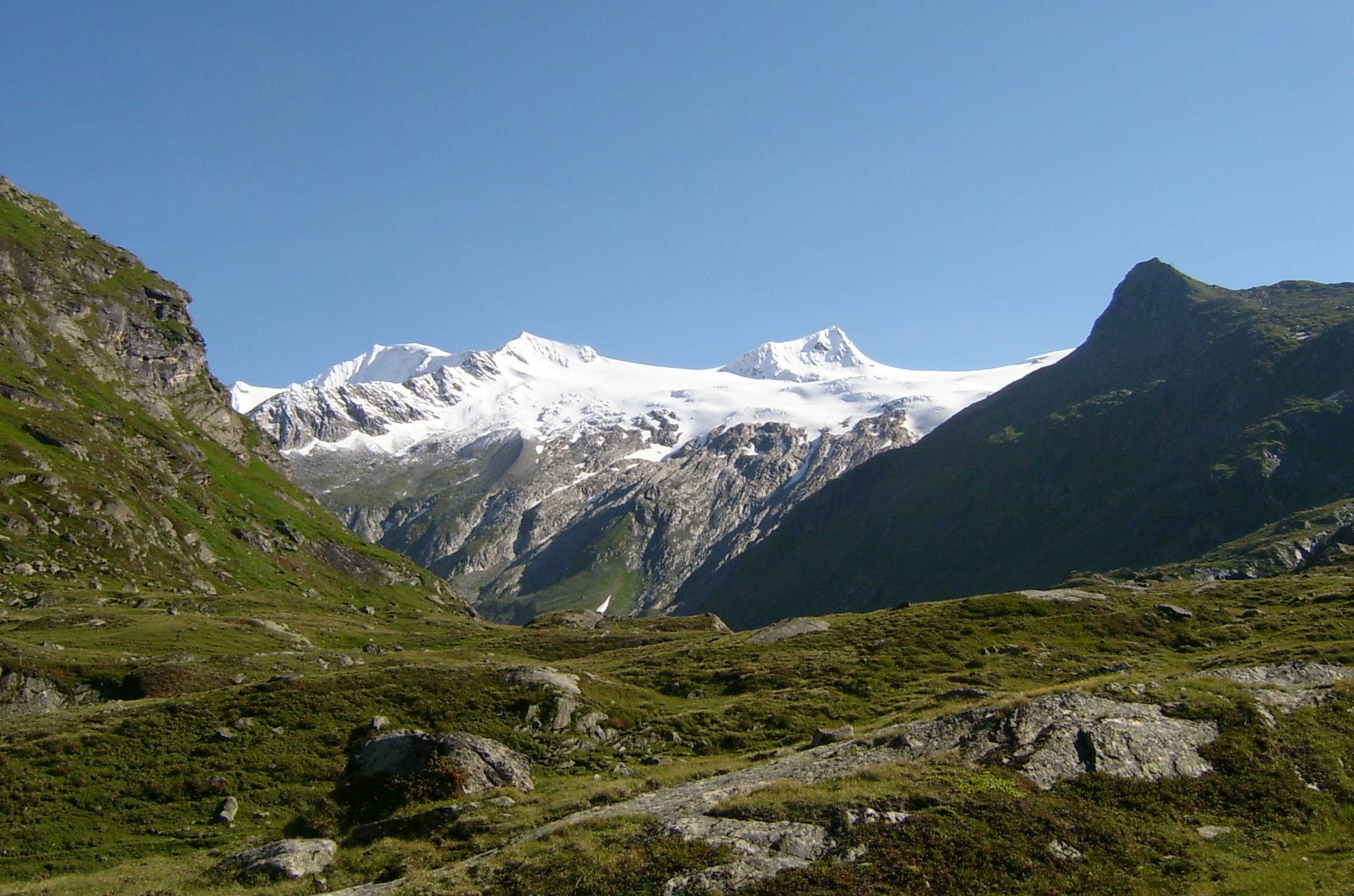 Großvenediger (3657 m) from the Johannishütte